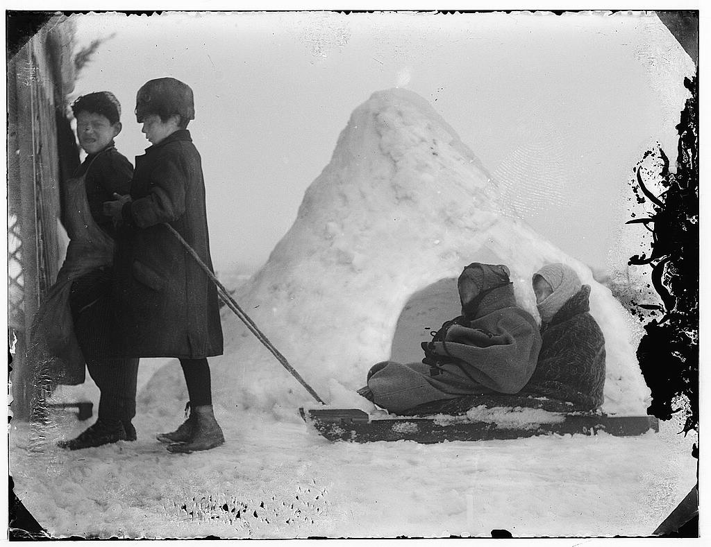 Snow in Jerusalem 1921. Children pulling children on sled